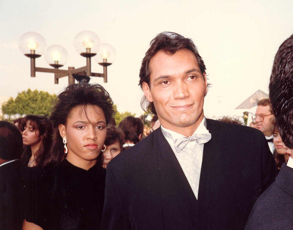 Jimmy Smits on the red carpet at the 39th Annual Emmy Awards 9/20/87 - Permission granted to copy, publish, broadcast or post but please credit "photo by Alan Light" if you can